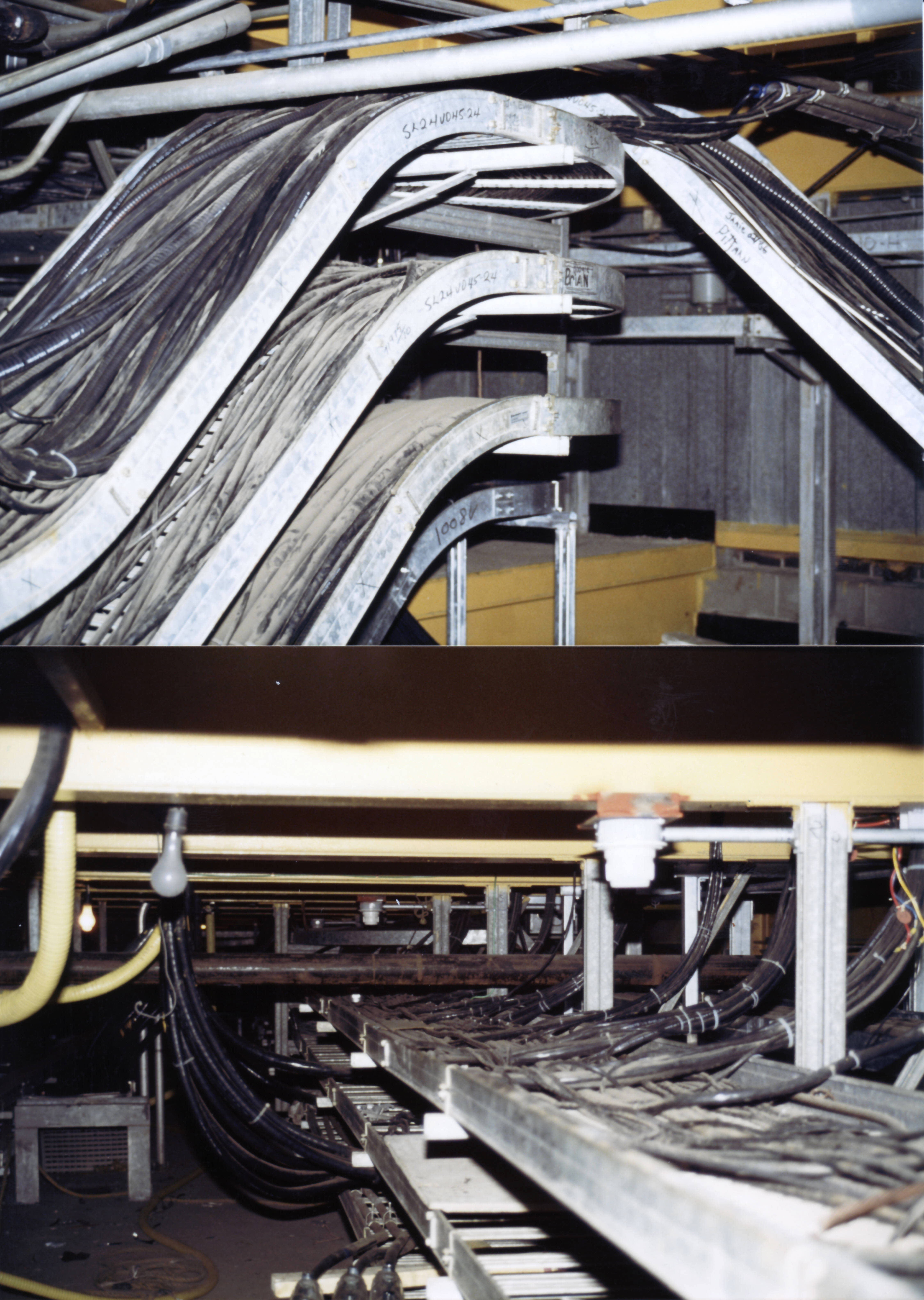 Point Tupper, Nova Scotia Coal power plant, Unit 2, Cable Spreading Room, below Control room.